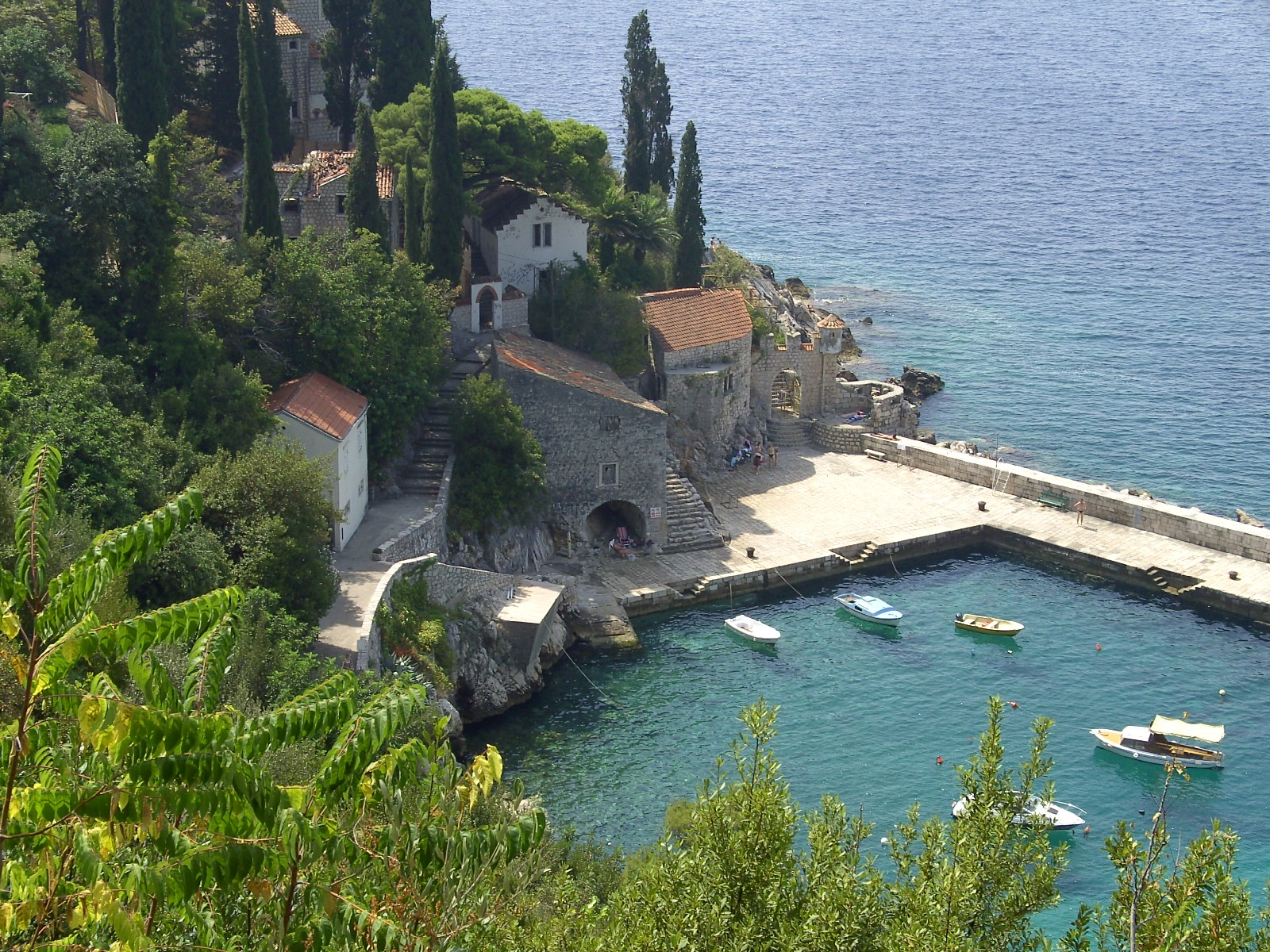 Town of Trsteno, Croatia